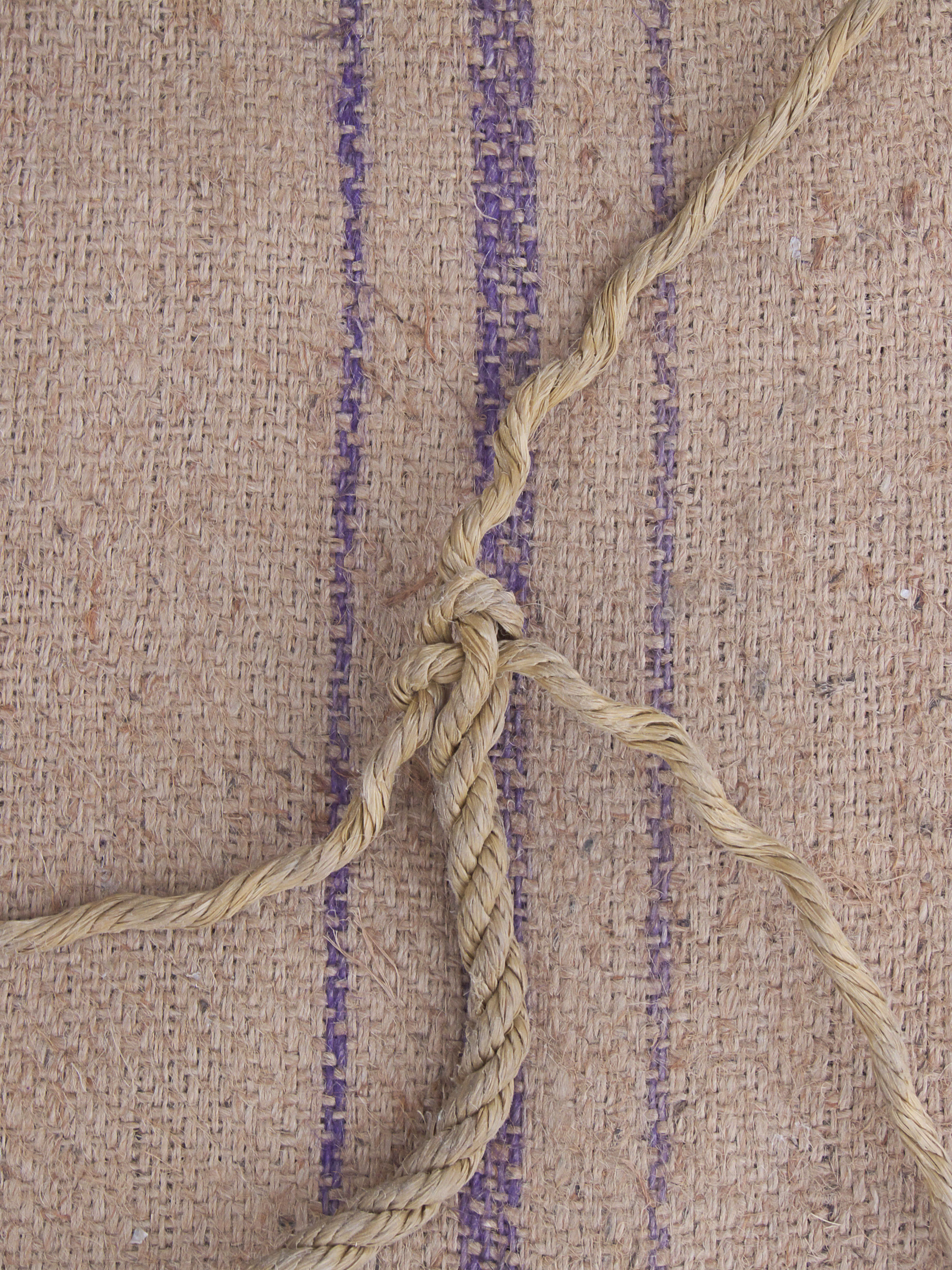 End splice start